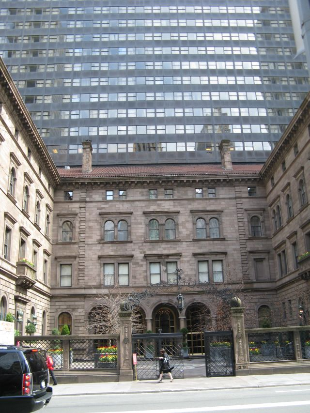 The New York Palace Hotel and Villard Houses